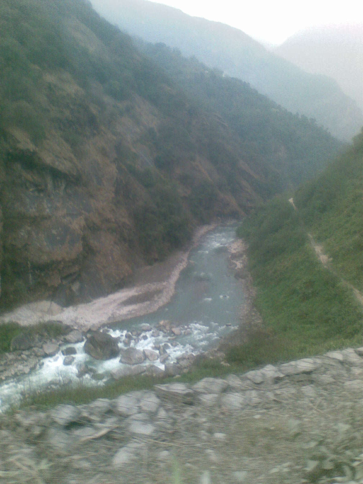 The River Teesta Flowing across the length of Sikkim, it is fed by snow melting on the mountains as well as rain and meets the river Rangeet at the border between Sikkim and West Bengal. The river is narrow, serpentine and full of rocks and hence are not navigable. Because of swift currents hitting rocks, the river is very noisy and can be heard for miles together. The river finally joins the river Bhramaputra in Bangladesh.